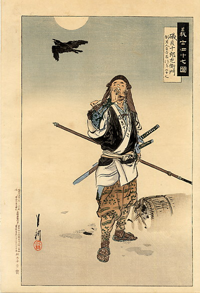 Ronin are masterless samurai. Chushingura is the true story of 47 samurai who became masterless in 1701, after their lord had been forced to commit ritual suicide (seppuku) for assaulting a court official who had insulted him. They avenged him by killing the court official after patiently planning for over a year. They were themselves then forced to commit seppuku.